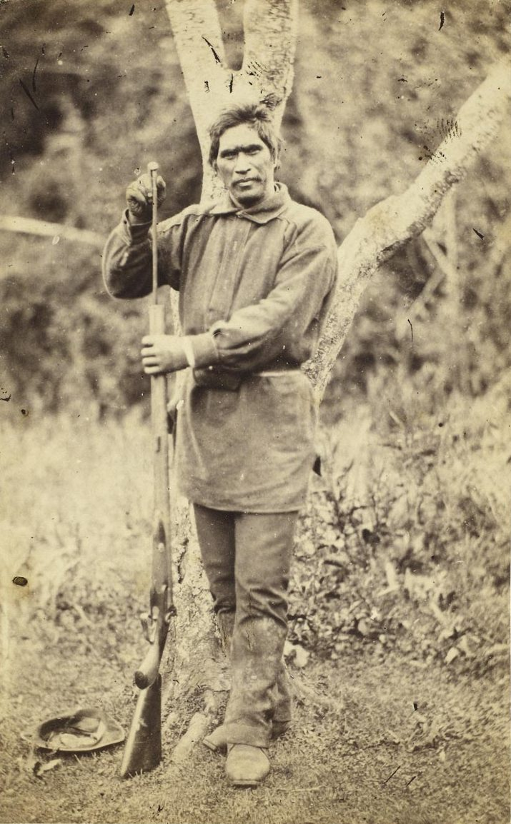 William Thompson J.K. Jany 1863. Full length portrait of Wiremu Tamihana Tarpipipi Te Waharoa also known as William Thompson with a rifle.